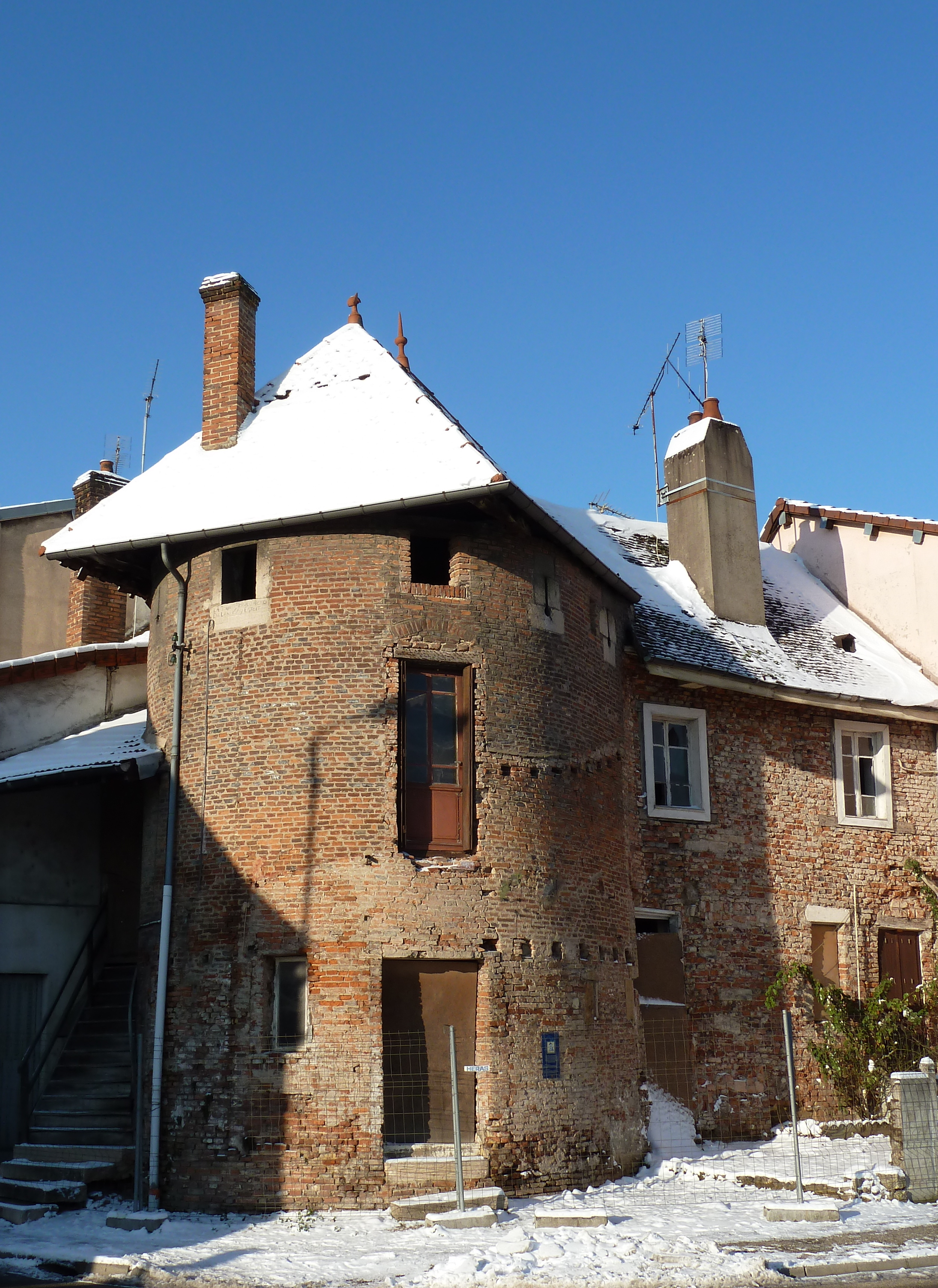 St-Paul Tower in Louhans (France, Burgundy)